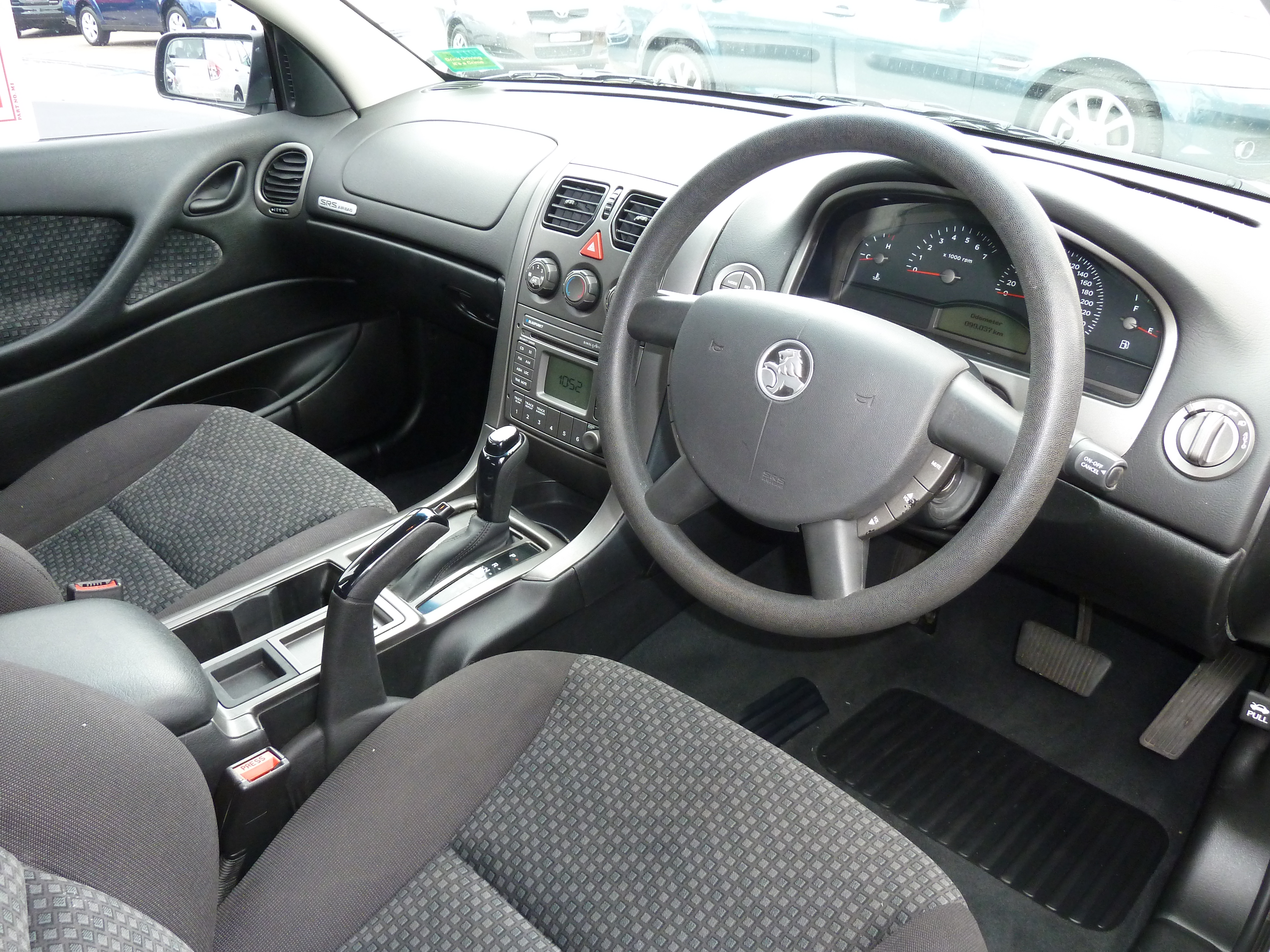 2007 Holden Commodore (VZ MY07) Executive station wagon,. Photographed at Suttons Holden, Chullora, New South Wales, Australia.